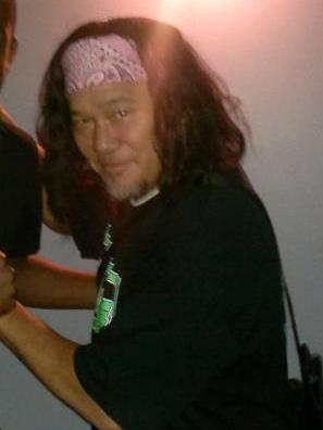 a cropped photo, I (jojoseph1730) took with Pat Tanaka on 16 March 2012 at a MCW show in Melbourne FL